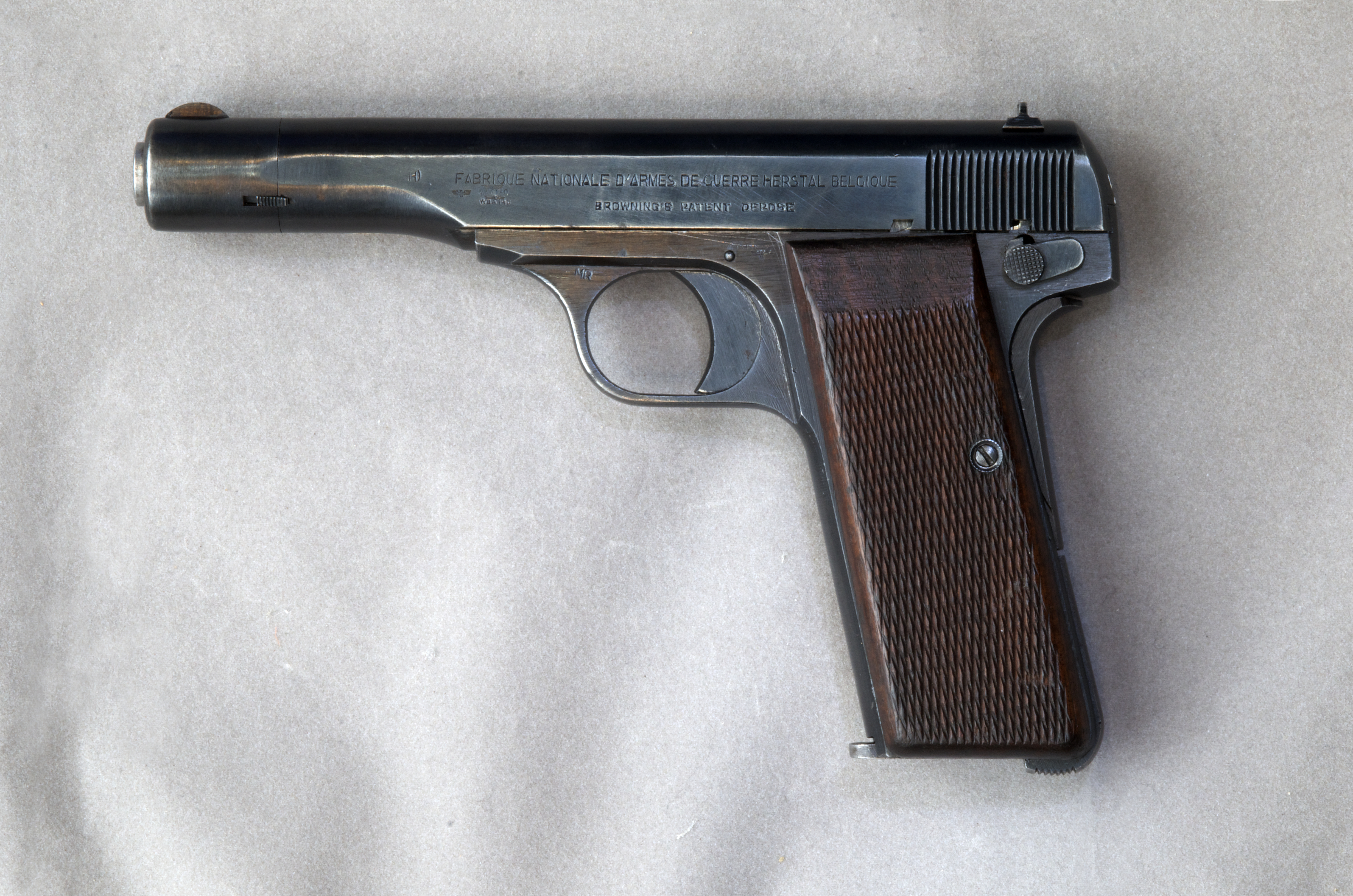 Browning 1922 .32 ACP S/n 6304b, left side, a.k.a. FN Model 1922, Browning 1910/22, FN Model 1910/22. Manufactured Fabrique Nationale de Herstal, Belgium, during Nazi occupation, 1940-1944. Located Old Lyme, Connecticut, 2013. See another file for the other side.